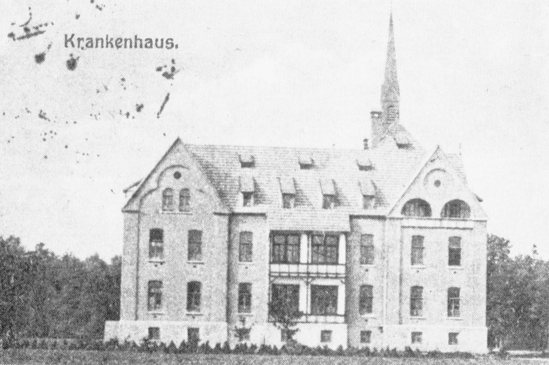 Sankt Anna Hospital in Verl about 1914.